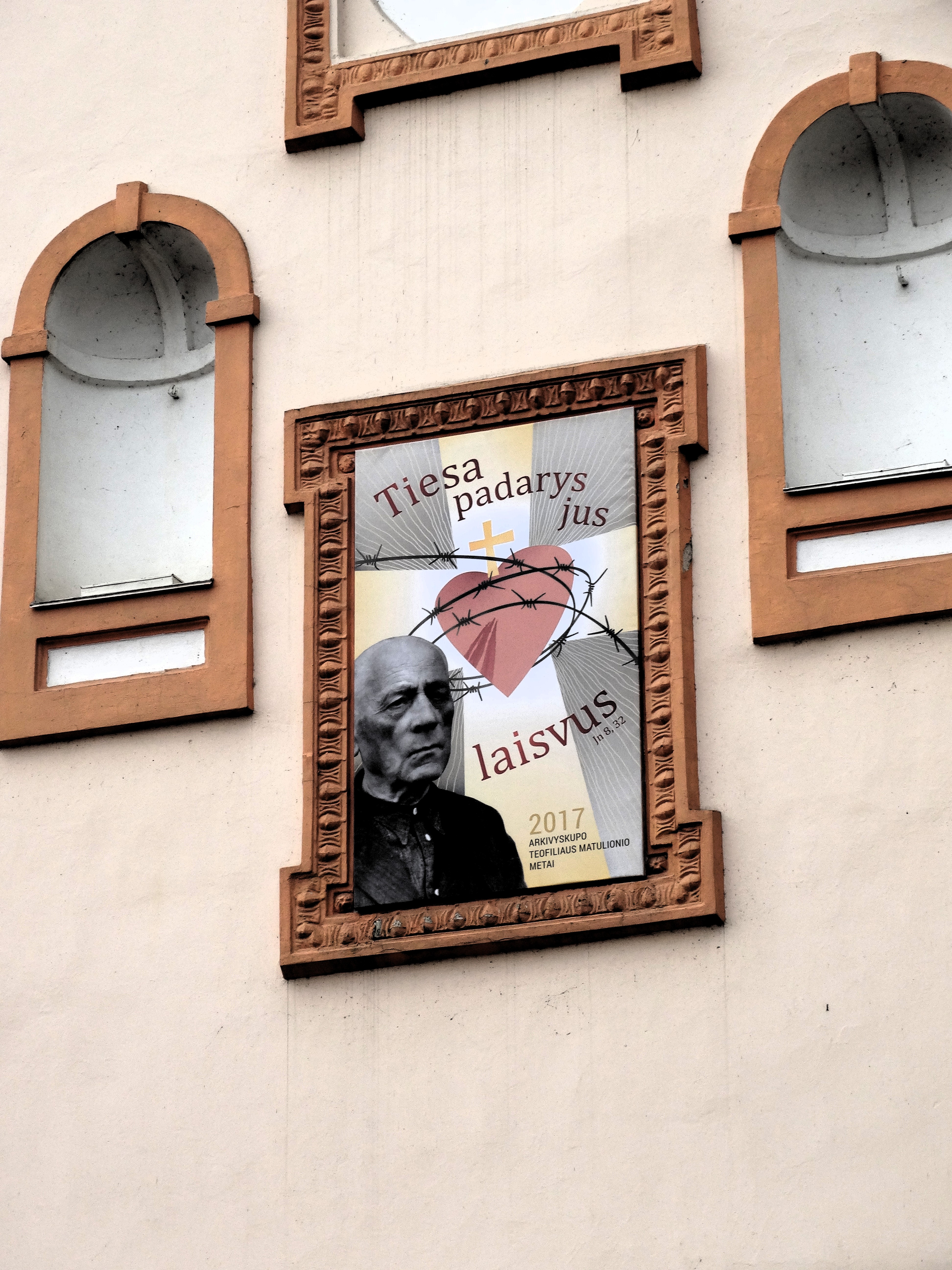 Gates to Curia, Kaunas, Lithuania